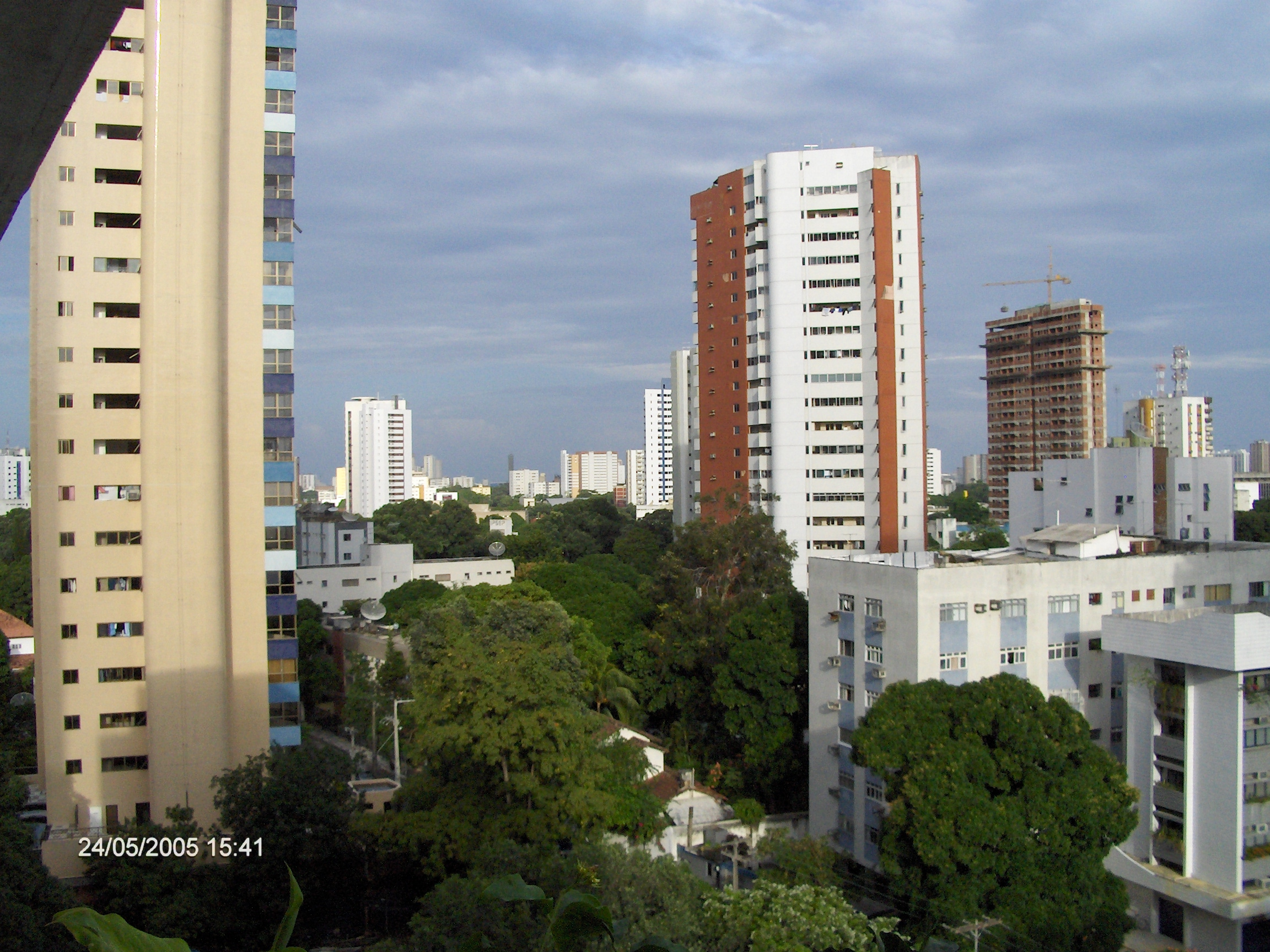 Graças district, northern Recife, Brazil.